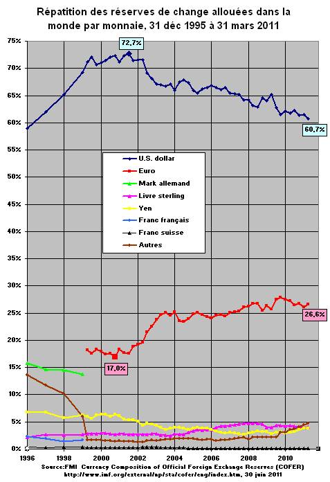 Currency composition of allocated Official Foreign Exchange Reserves (COFER), end 1995 to end 1st quarter 2011